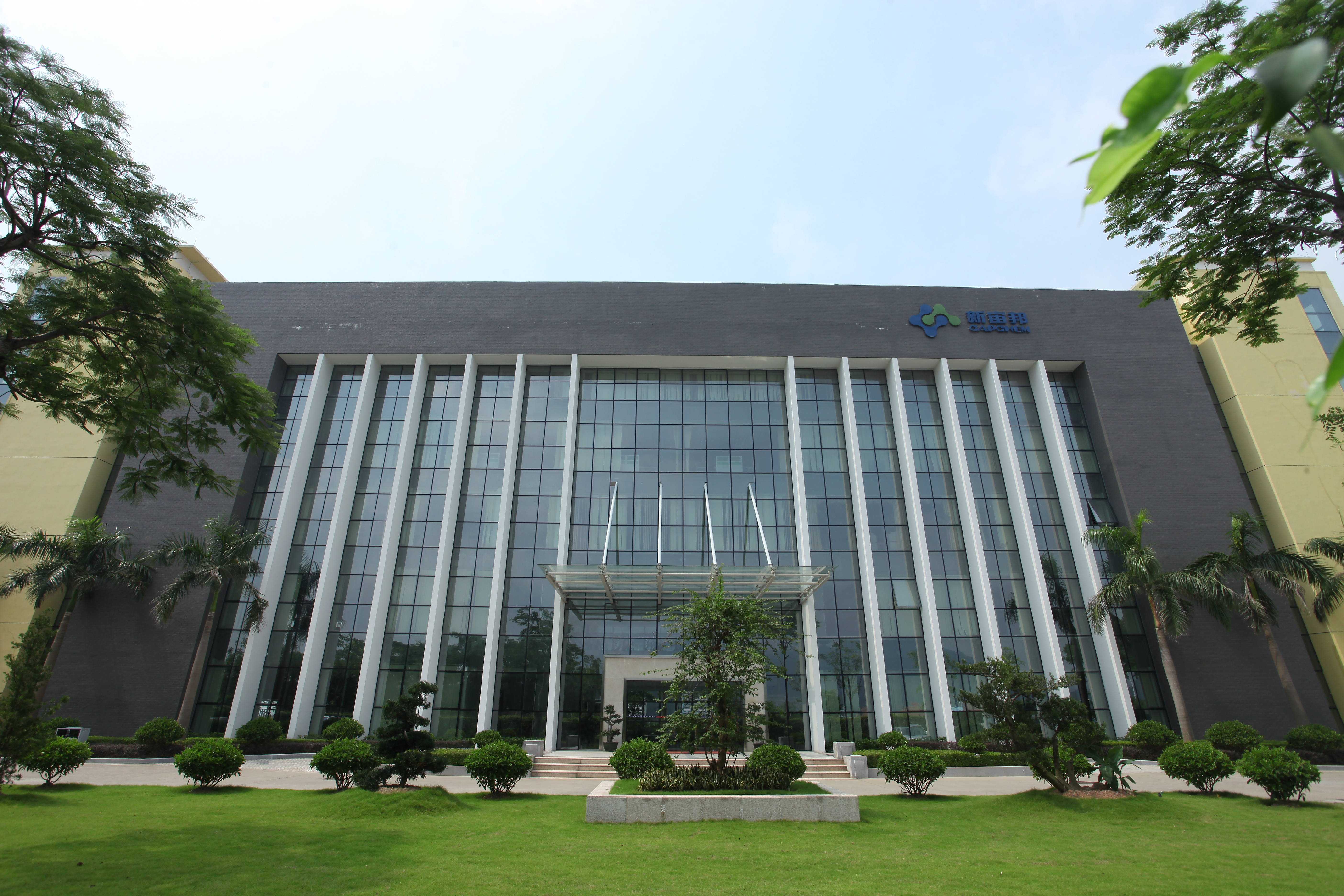 Capchem Huizhou